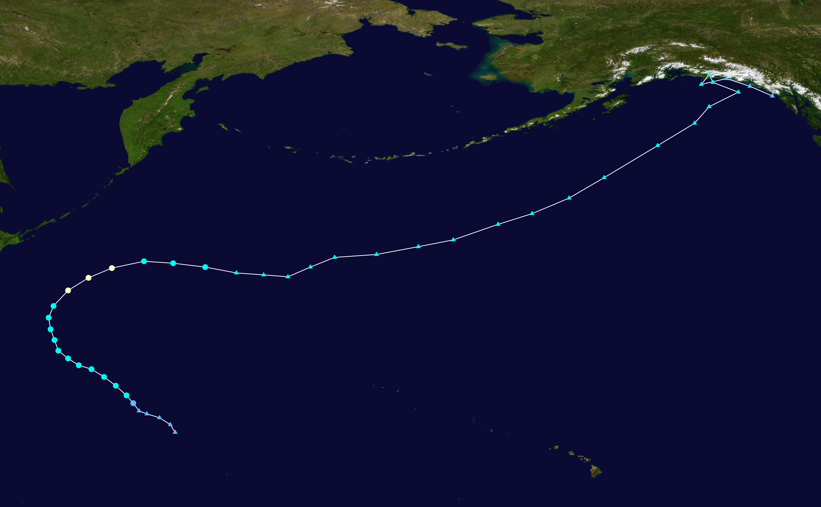 Track map of Severe Tropical Storm Danas of the 2007 Pacific typhoon season. The points show the location of the storm at 6-hour intervals. The colour represents the storm's maximum sustained wind speeds as classified in the Saffir–Simpson scale (see below), and the shape of the data points represent the nature of the storm, according to the legend below. Saffir–Simpson scale Tropical depression≤38 mph≤62 km/h Category 3111–129 mph178–208 km/h Tropical storm39–73 mph63–118 km/h Category 4130–156 mph209–251 km/h Category 174–95 mph119–153 km/h Category 5≥157 mph≥252 km/h Category 296–110 mph154–177 km/h Unknown Storm type Tropical cyclone Subtropical cyclone Extratropical cyclone / Remnant low / Tropical disturbance / Monsoon depression